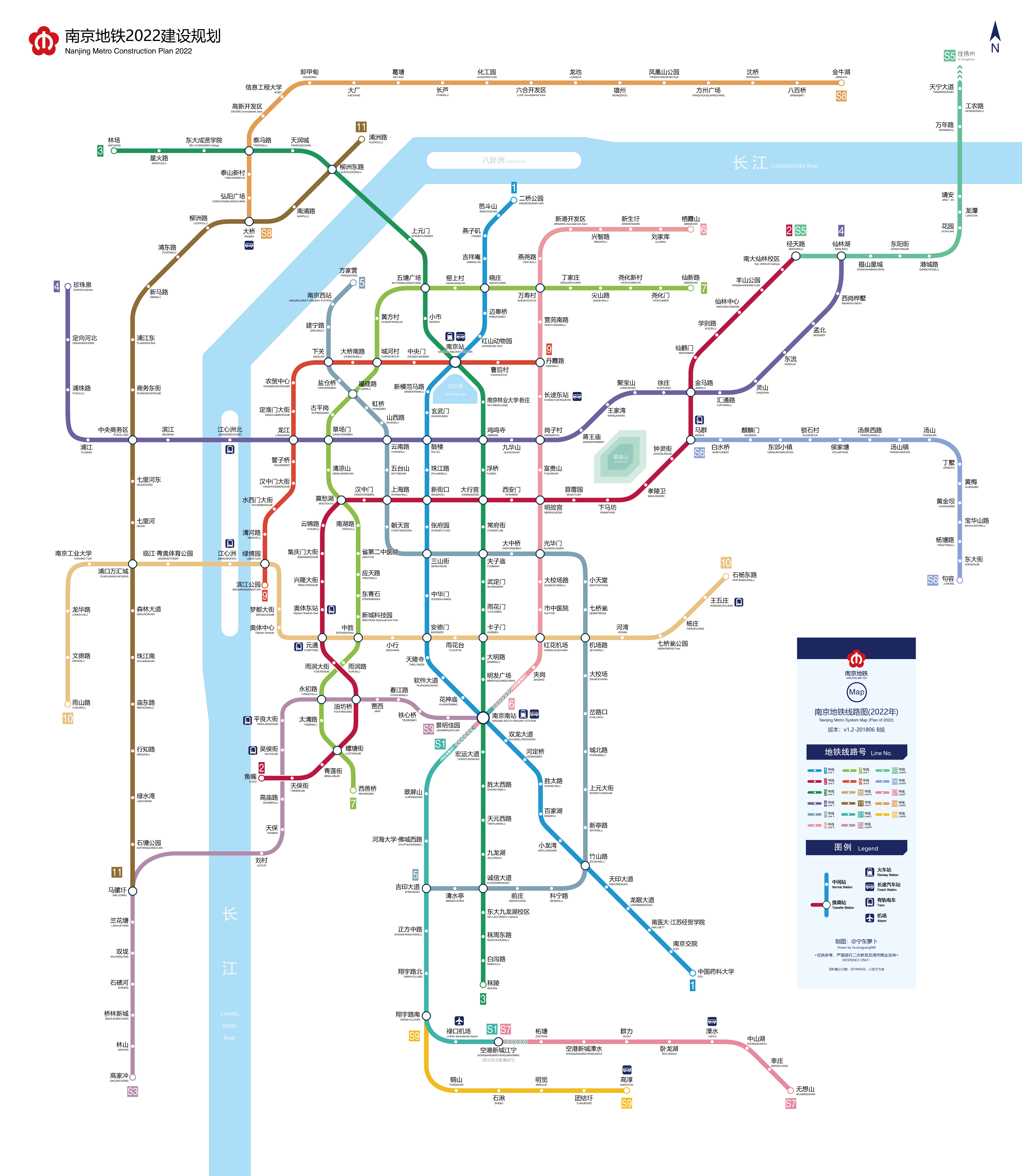 The digram of Nanjing Metro Construction Plan by 2022